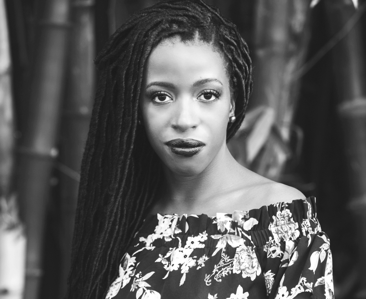 Photographed by Dionysia Browne